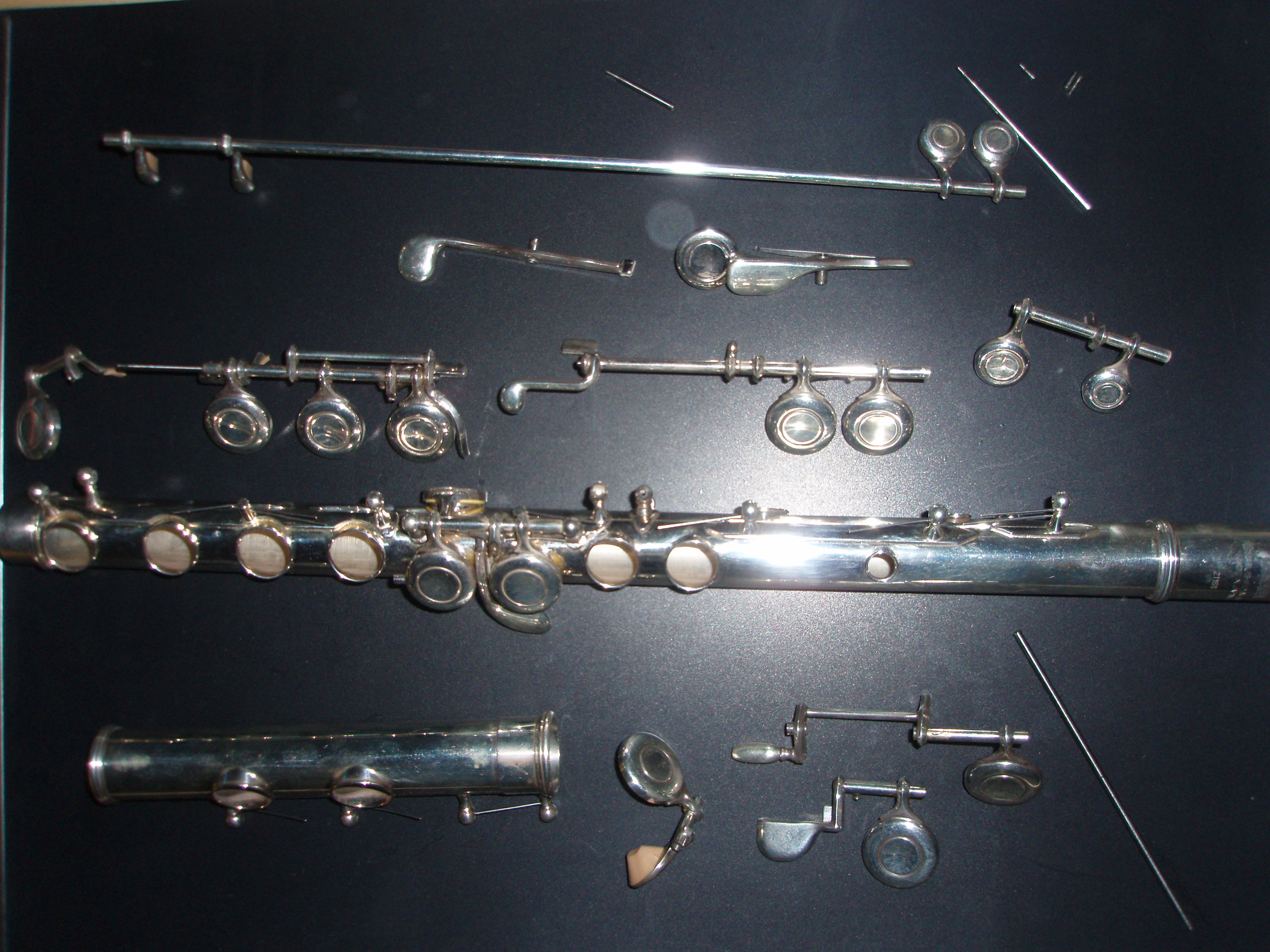 A western concert flute devided into many parts.